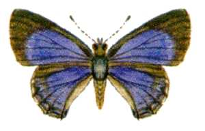 Acrodipsas myrmecophila Phylum ARTHROPODA Class HEXAPODA Order Lepidoptera Family Lycaenidae